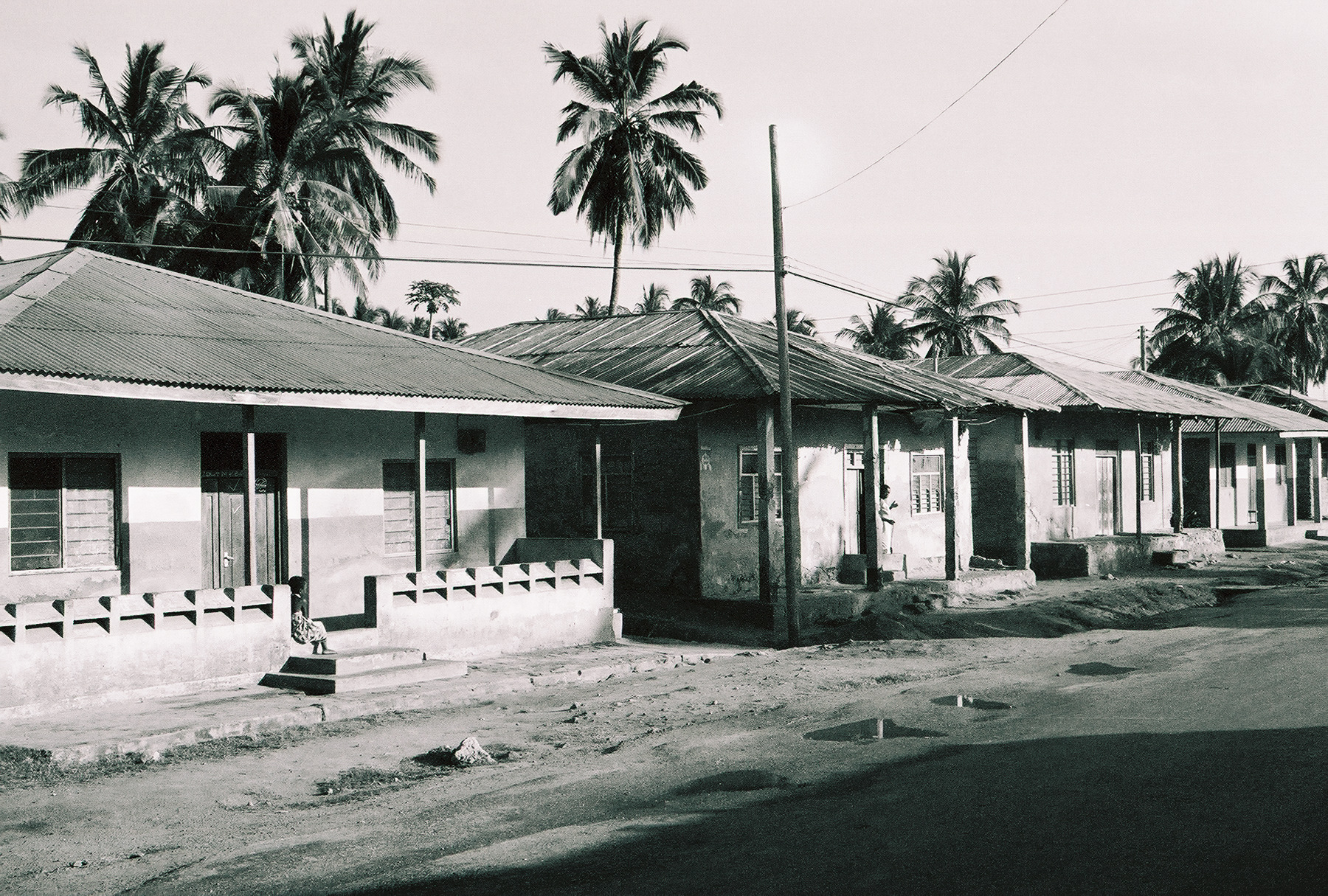 Taken by Andrew Coe, of downtown Lindi